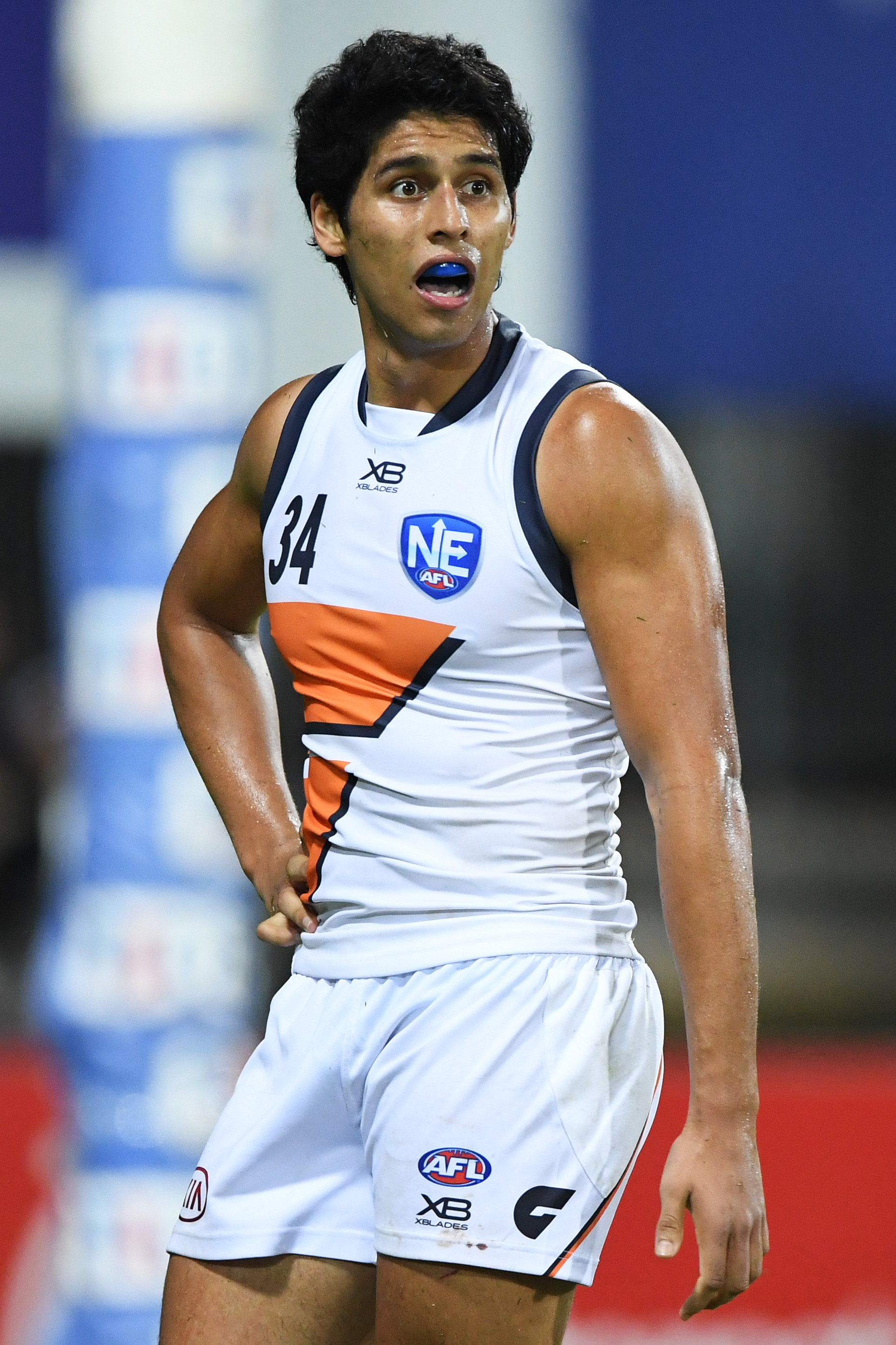 Nick Shipley of Greater Western Sydney during the 2019 NEAFL round 15 match between NT Thunder and Greater Western Sydney at TIO Stadium on Saturday, 13 July 2019 in Darwin, Australia.